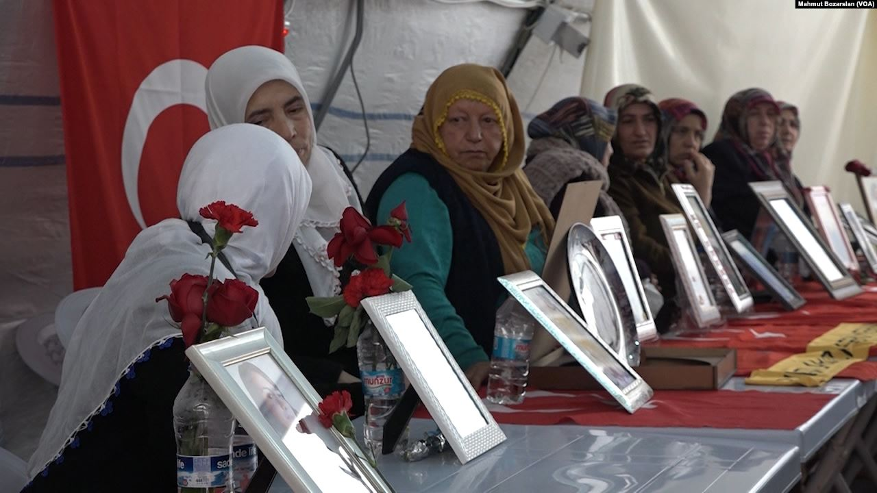 Sit-in of mothers from Diyarbakir against PKK, in front of HDP building